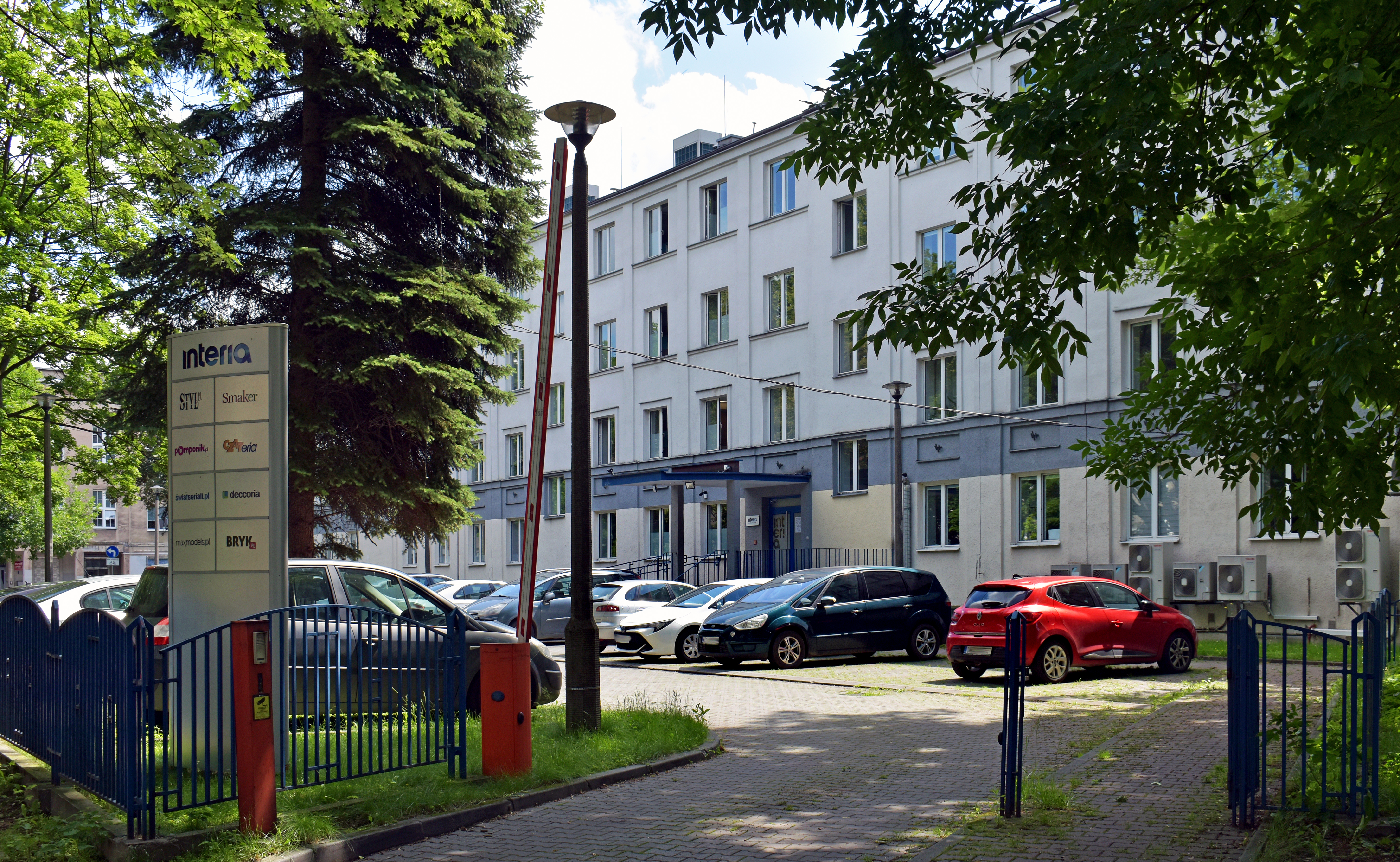 Interia.pl Group, 9a osiedle Teatralne, Nowa Huta, Kraków, Poland